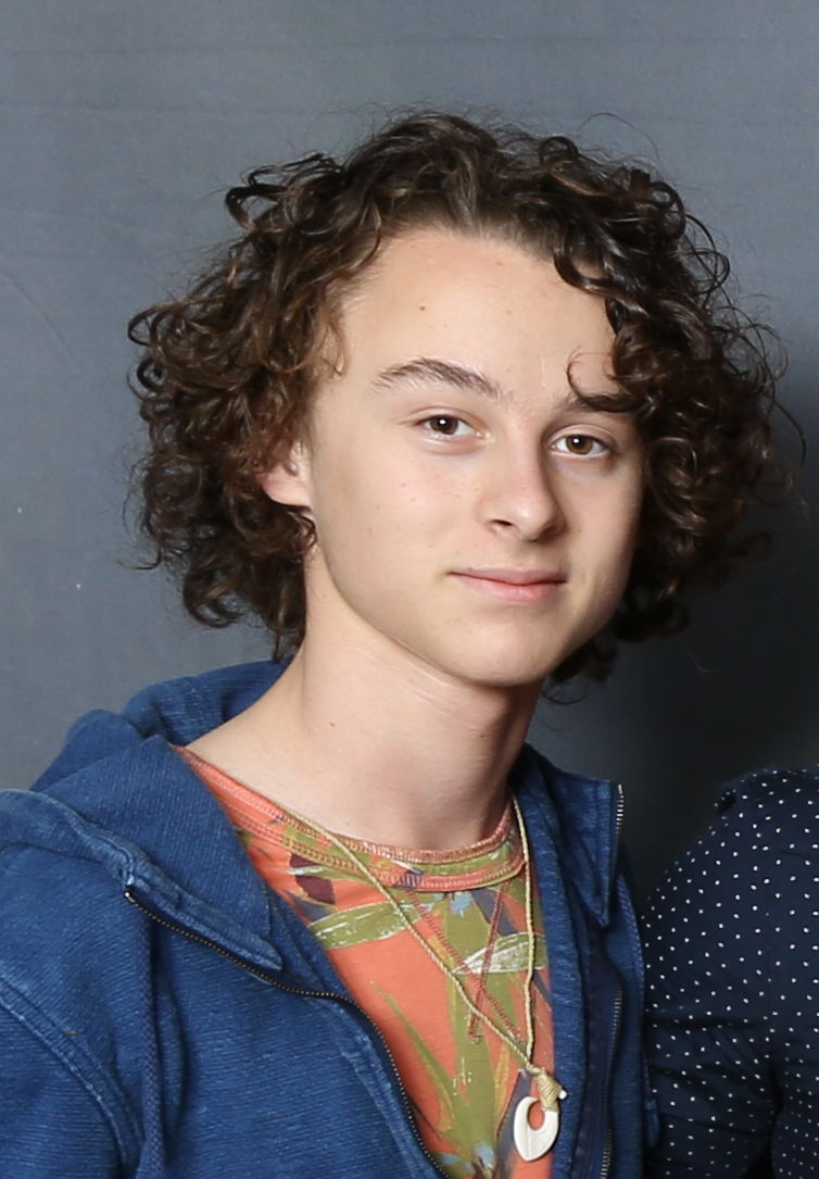 Partial cast of It (2017) at PCCC2018. From left to right: Wyatt Oleff, Chosen Jacobs, unidentified fan, Jeremy Ray Taylor and Jaeden Martell (né Lieberher)